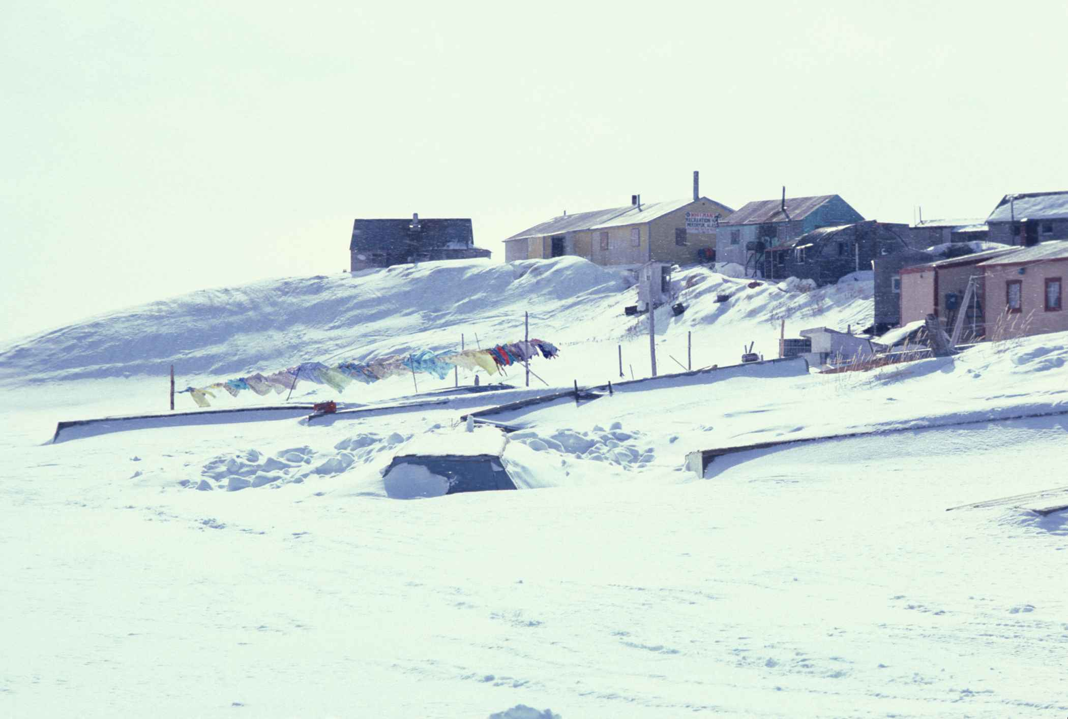 Spring view of part of Mekoryuk, Nunivak Island, Alaska, USA.